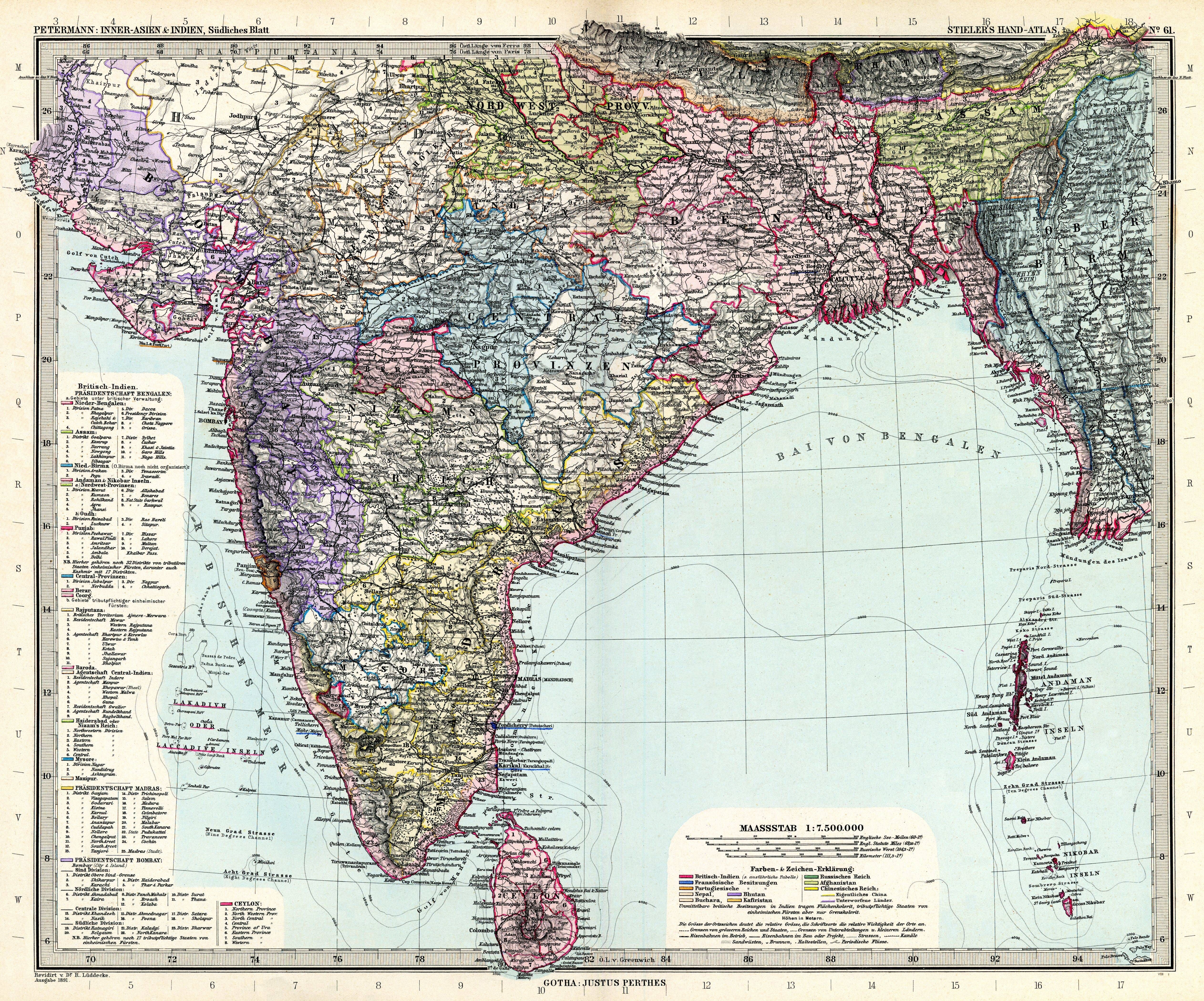 Central Asia & India, southern sheet